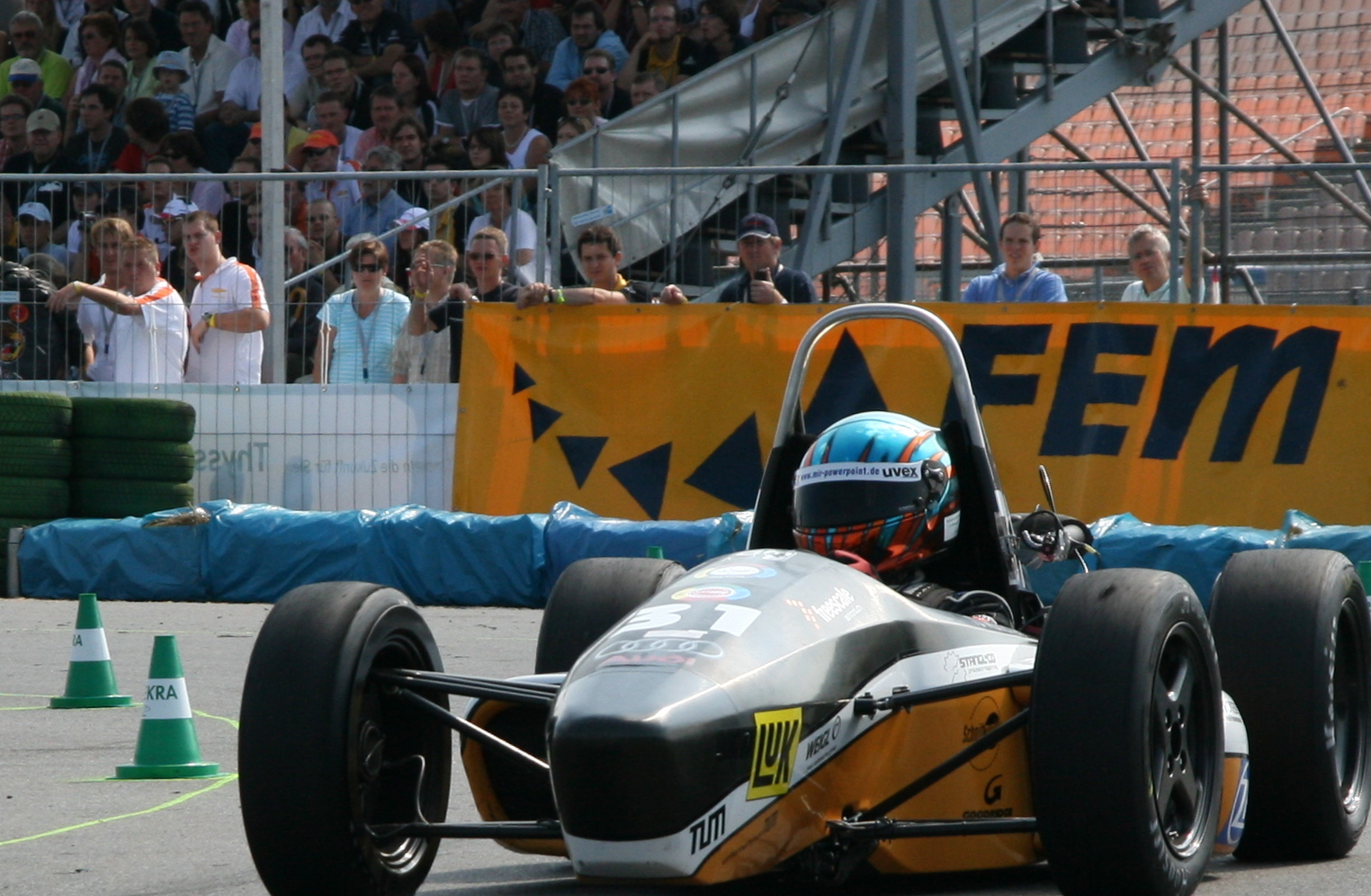 Race car of the Formula Student Team of the TU Munich at Hockenheimring 2007.